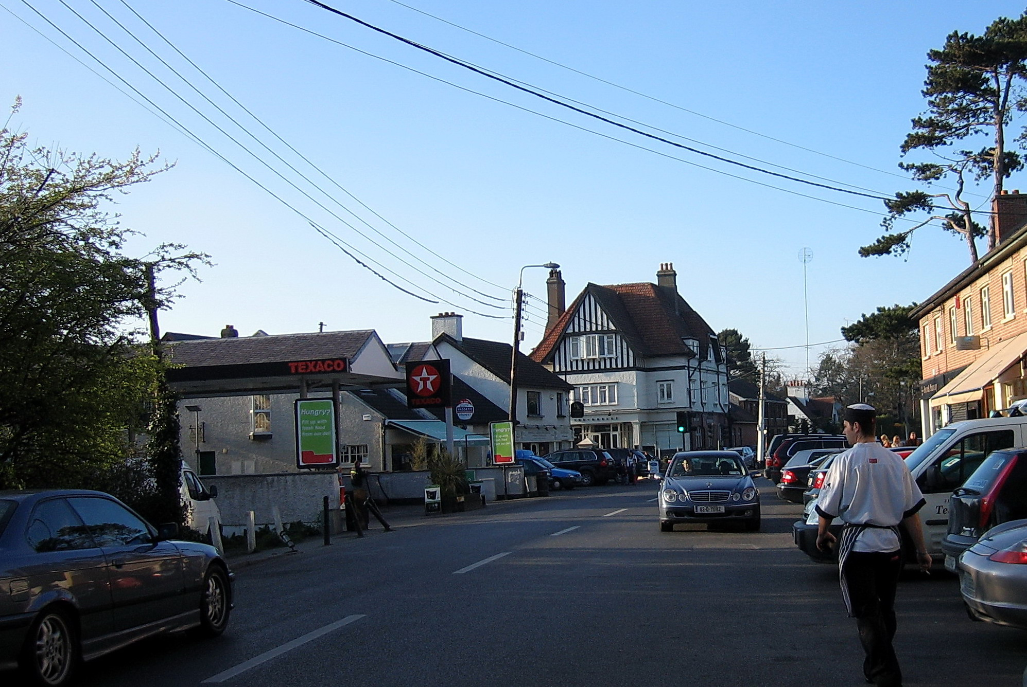 Centre of Foxrock Village, near to Foxrock, Leopardstown, Galloping Green, Carrickmines and Deans Grange, Dublin, Ireland. Brighton Rd Foxrock - showing that the richest folk in Dublin can live with my pet hate - overhead wires in urban areas!